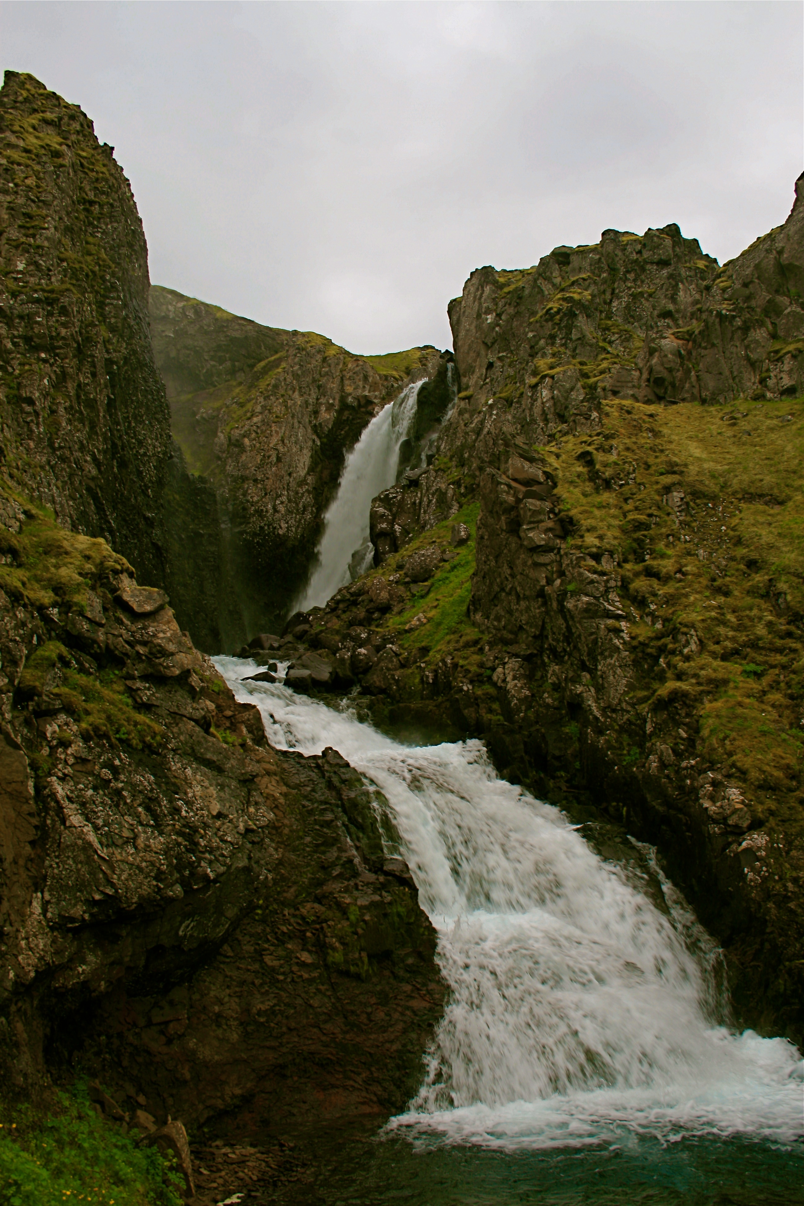 Waterfall near Hornvik bay, Hornstrandir nature reserve